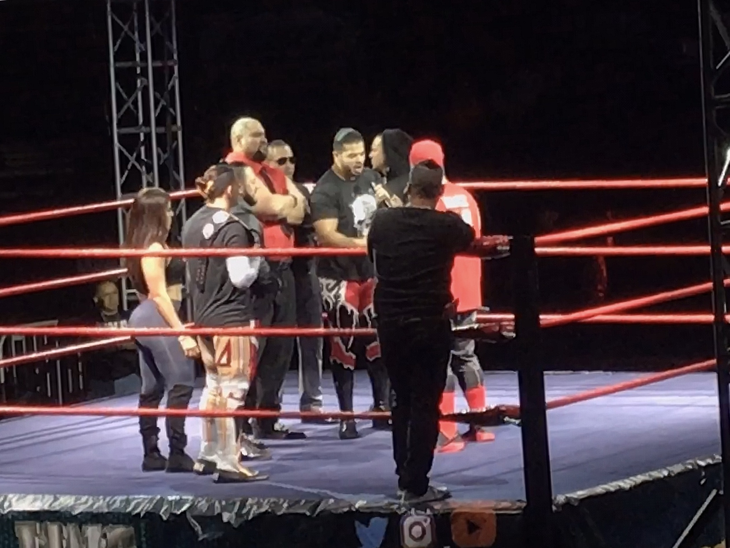 Profesional wrestling stable Puro Macho performing for the International Wrestling Association.